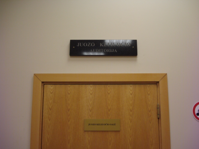 Juozas Keliuotis auditorium at Institute of Journalism of Vilnius University Faculty of Communication